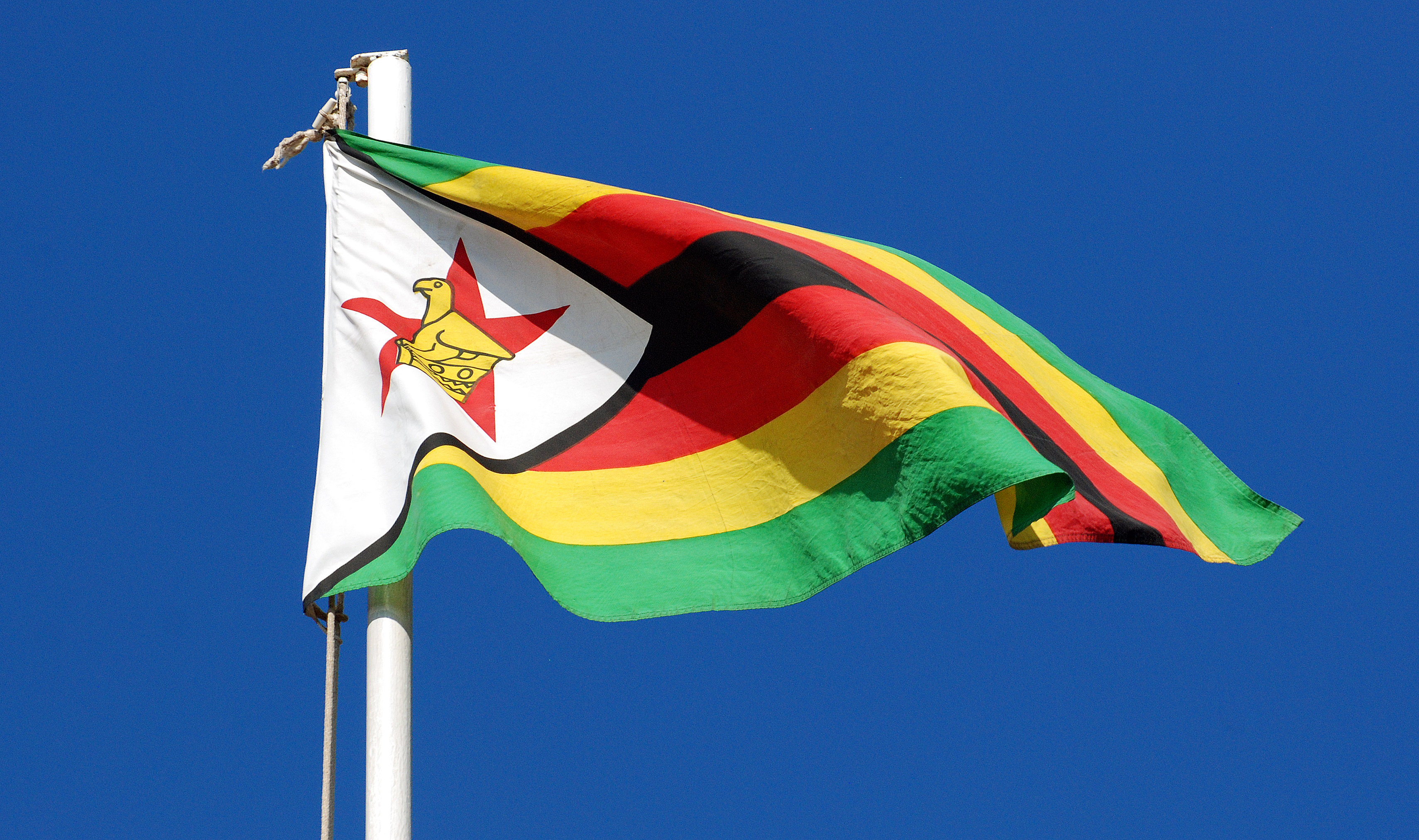 The flag of Zimbabwe was adopted on April 18, 1980. The soapstone bird featured on the flag represents a [statuette] of a bird found at the ruins of Great Zimbabwe. The bird symbolizes the history of Zimbabwe; the red star beneath it symbolizes the revolutionary struggle for liberation and peace.